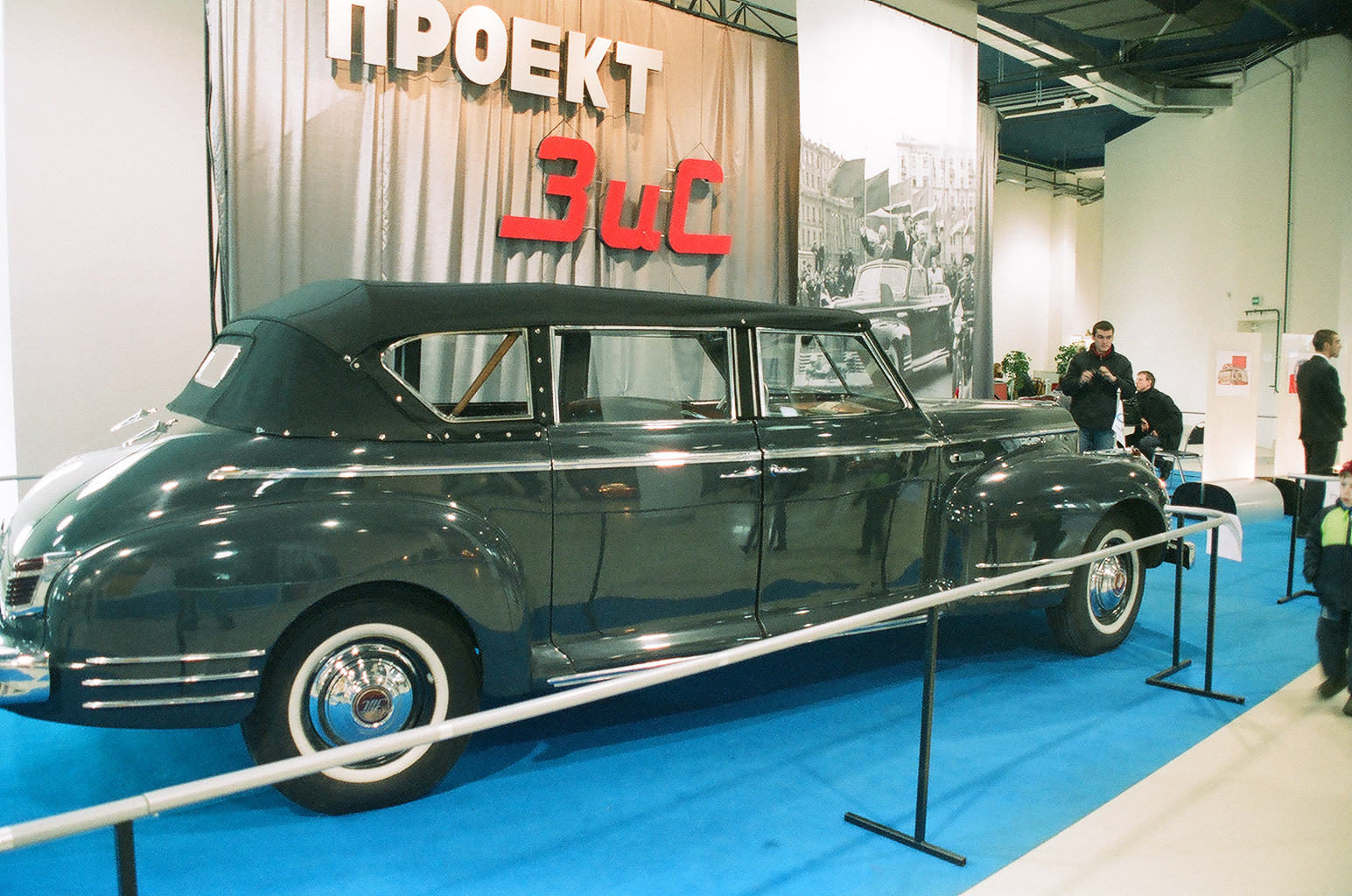 ZiS-110 at the Moscow International Motor Show 2003.